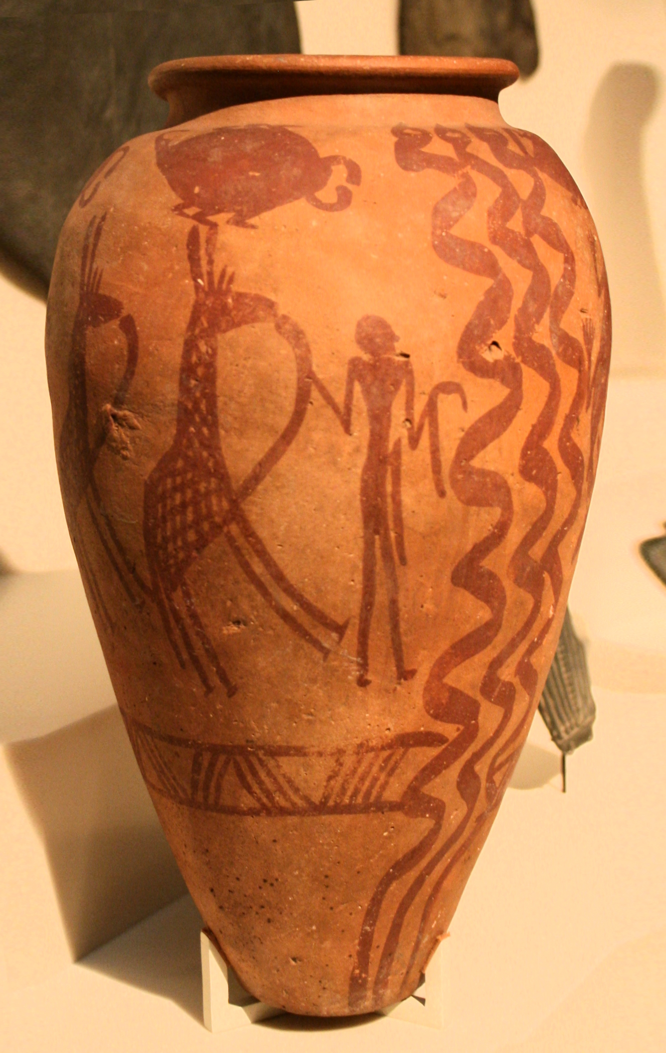 Ägyptisches Museum (Egyptian Museum), Berlin